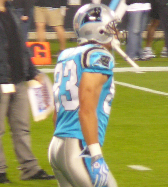 If used somewhere other than Wikipedia, Nelson, by name.